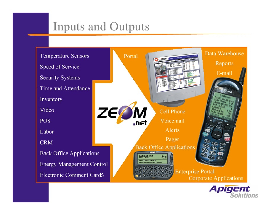 An overview of the technical capabilities offered by the product provided by Apigent Solutions.